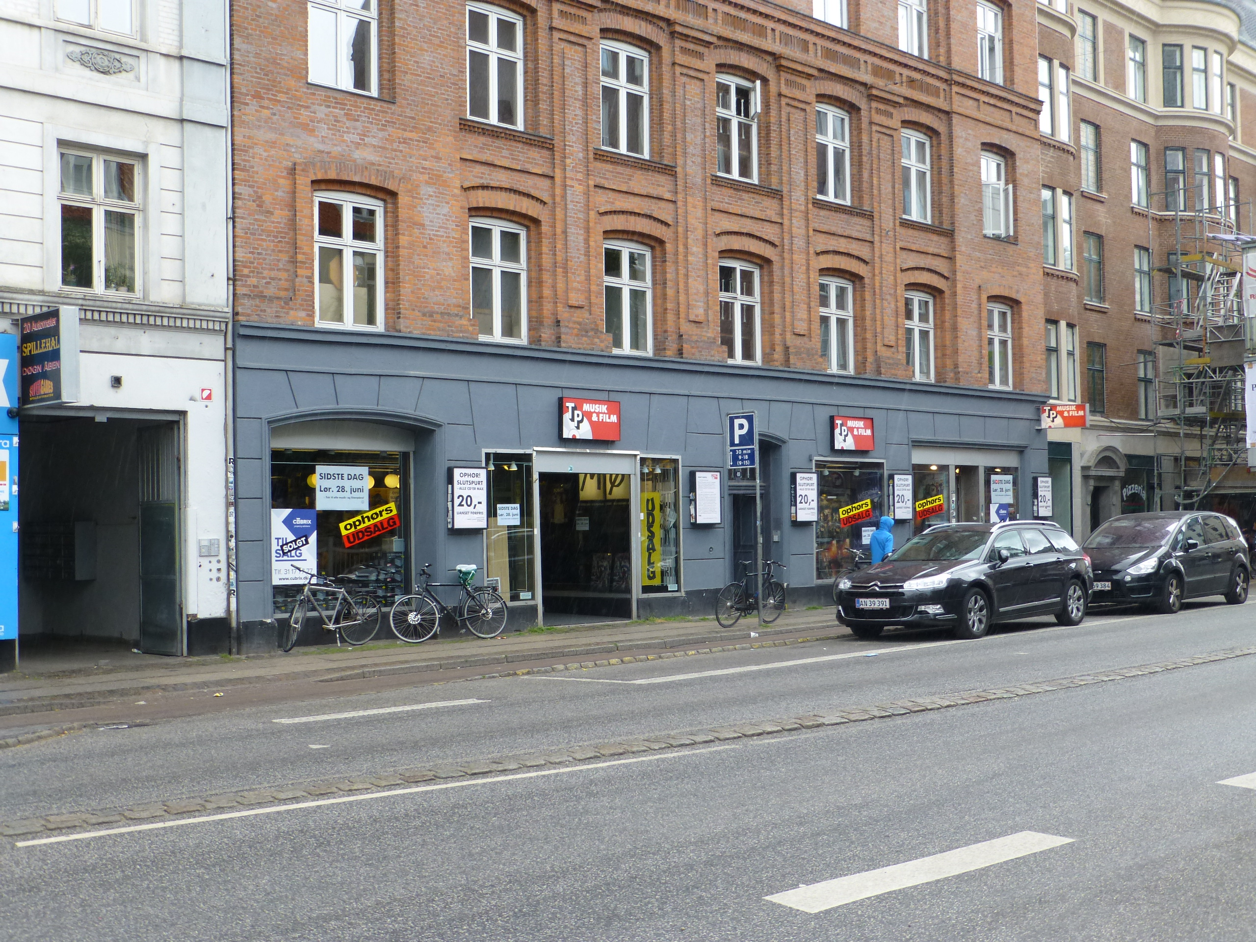 The last shop in the former music and movie chain TP Musik & Film on Gammel Kongevej in Frederiksberg short before the last day at june 28, 2014.